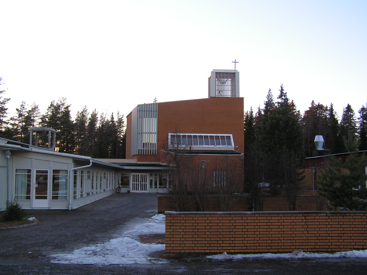 Church of Mary, Umeå, Sweden